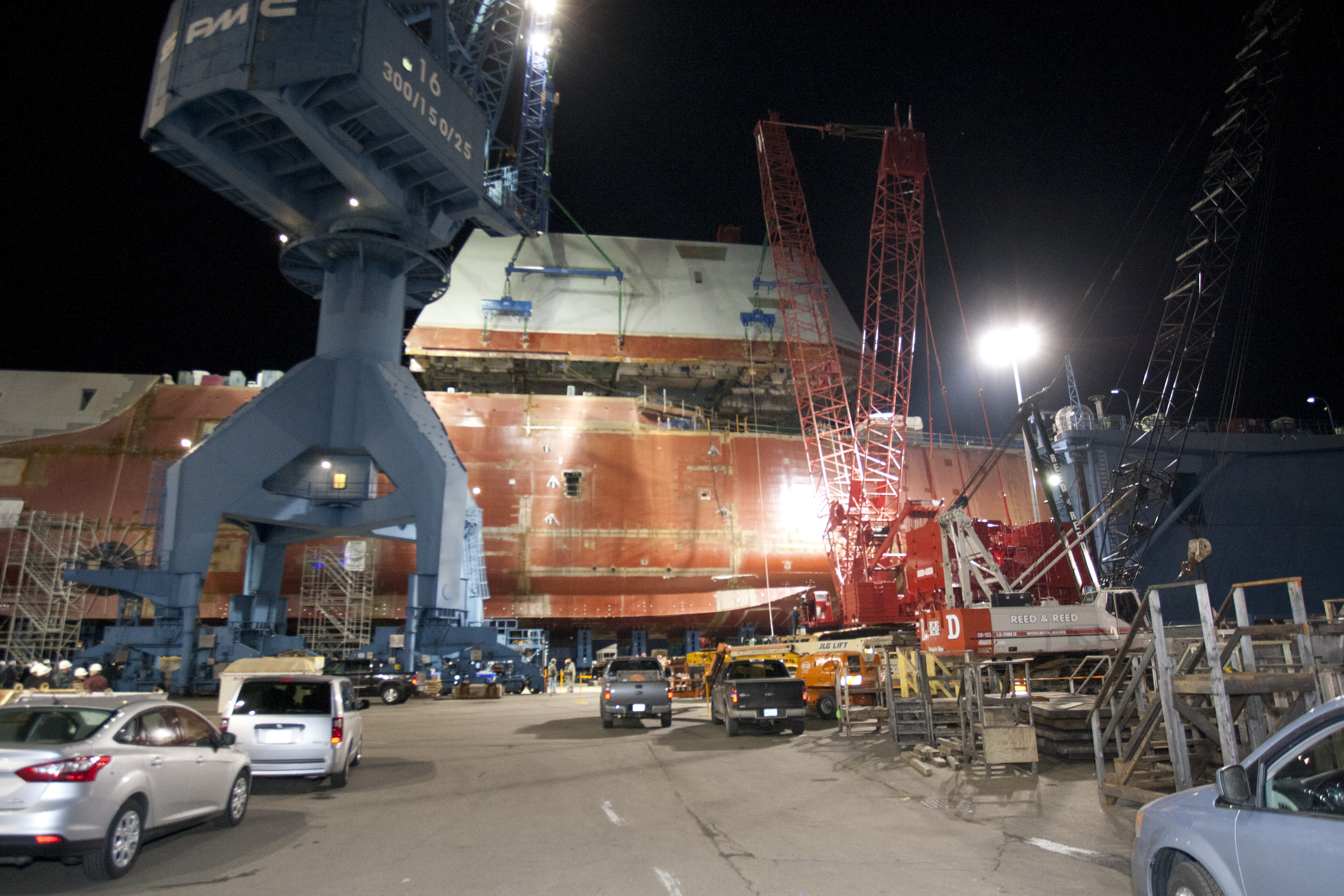 BATH , Maine (Dec. 14, 2012) The 1,000-ton deckhouse of the future destroyer USS Zumwalt (DDG 1000) is craned toward the deck of the ship to be integrated with the ship's hull at General Dynamics Bath Iron Works. The ship launch and christening are planned in 2013. (U.S. Navy photo/Released) 121214-N-ZZ999-204 Join the conversation navylive.dodlive.mil